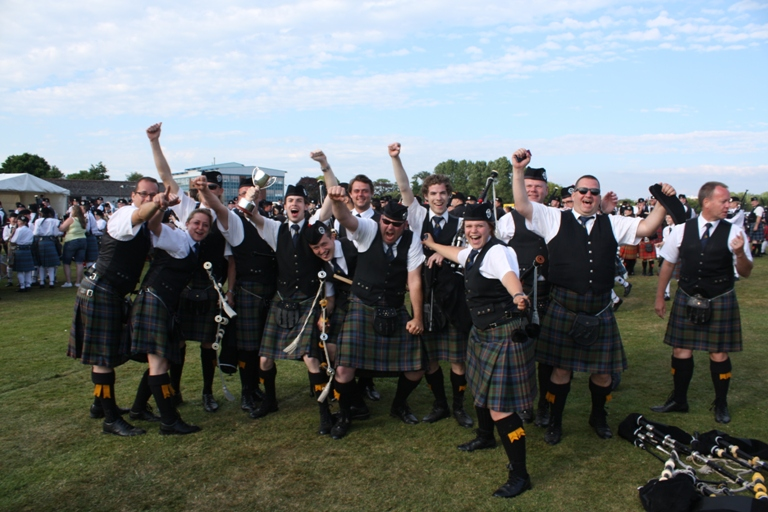 ADPB after their second place in Annan